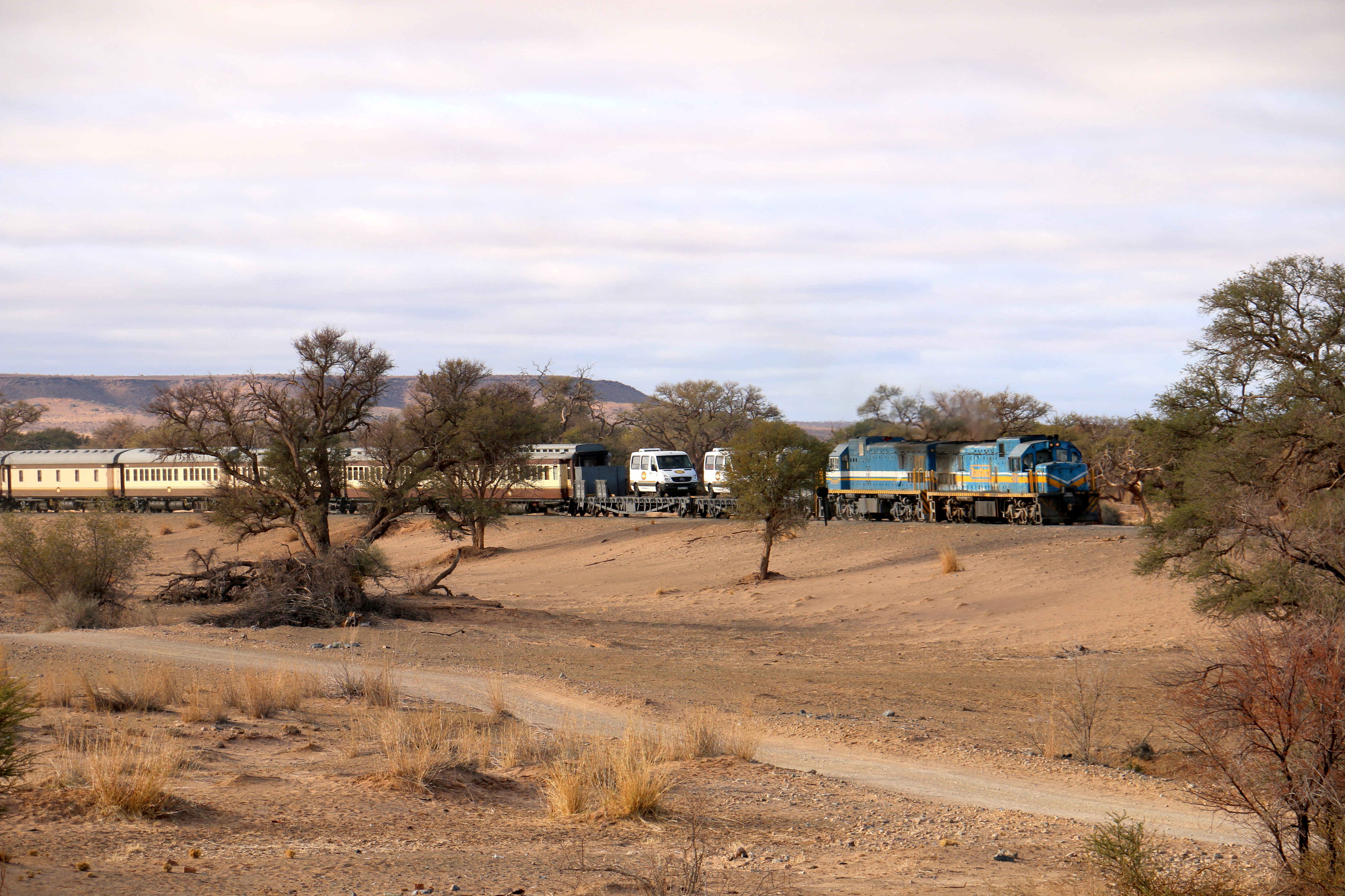 Luxury Passenger Train at Simplon (between Seeheim and Aus)